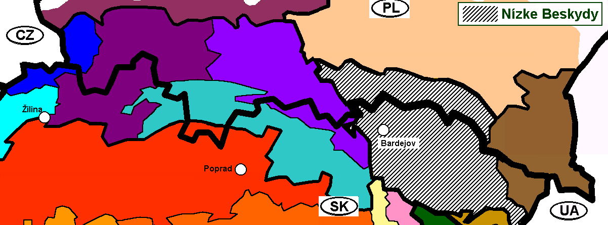 Central Beskids